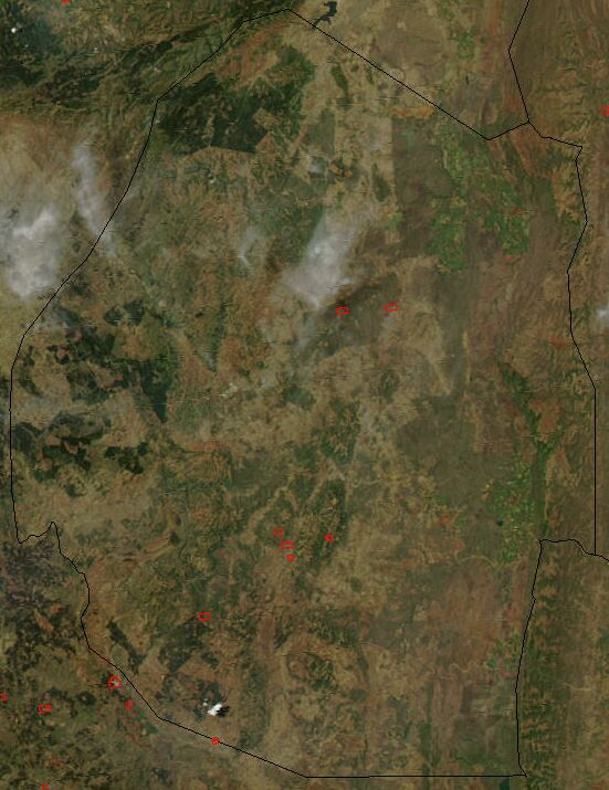 Satellite image of Swaziland in November 2002. Cropped image, original taken from NASA's Visible Earth. Red marks are fires.